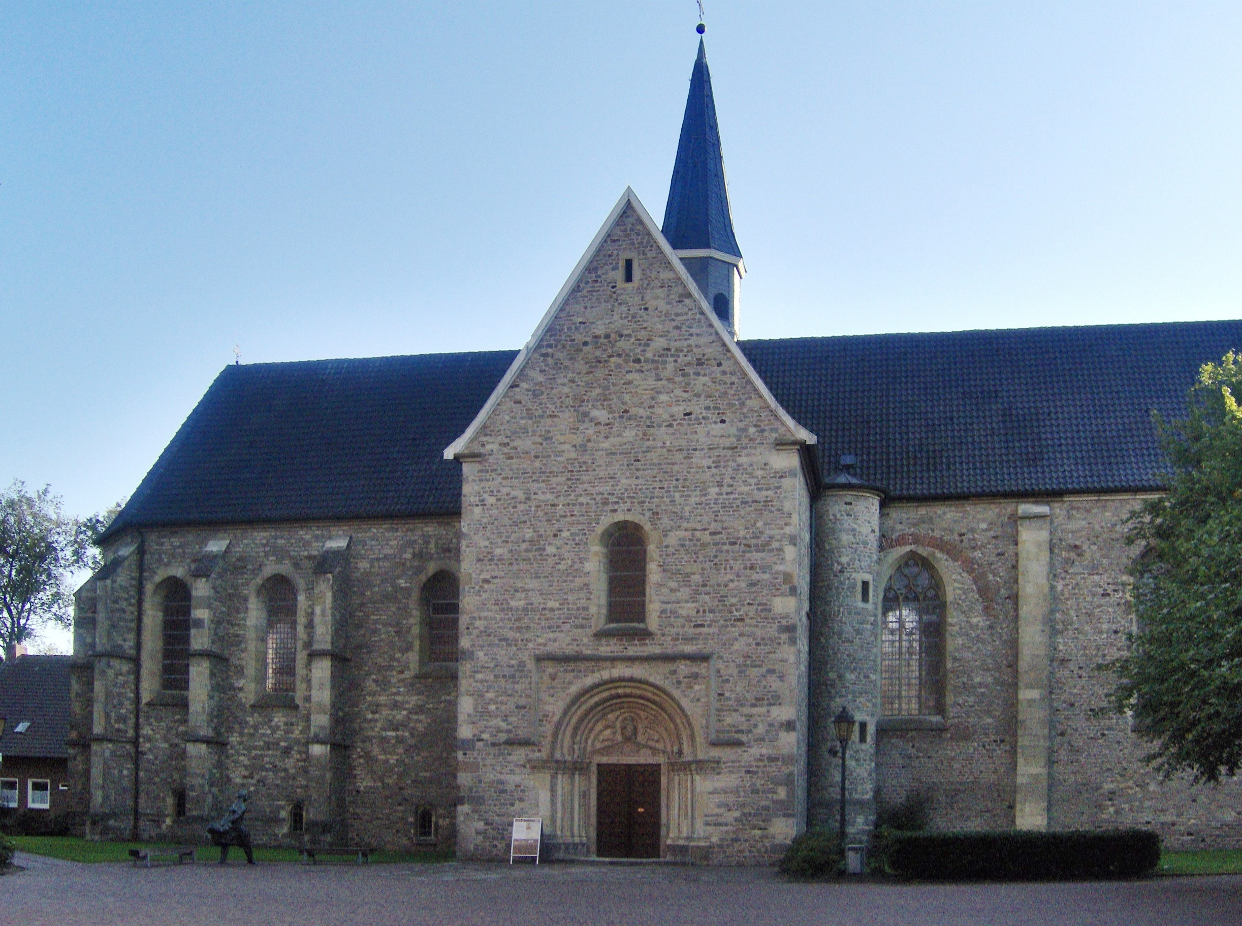 The catholic church Sankt Felizitas in Vreden in North Rhine-Westphalia, Germany